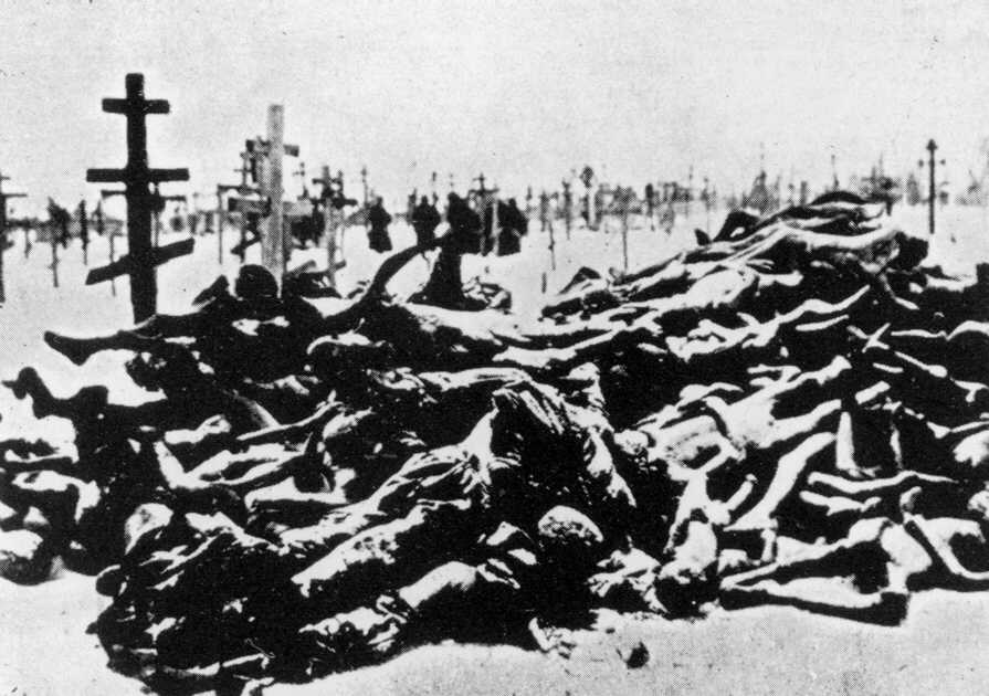 Famine in Russia 1921 The Corner Of The Cemetary In Wasted Country. Buzuluk, winter 1921/22 year. The image has also a known Holodomor hoax photo. Original Postcard Published In Brussels To Raise Funds For The Famine Relief Efforts by a Famine Relief Committee. Mr. Nansen was from Norway and was appointed the High Commissioner for the Soviet Famine Relief effort.